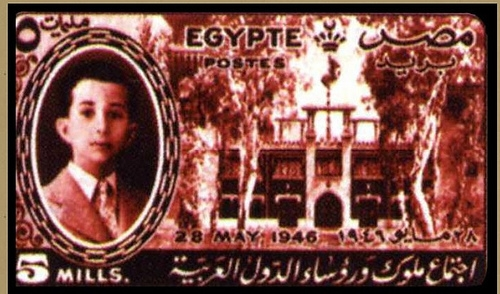 Arab League of states meeting at Anshas palace, Arab League conference 28-5-1946